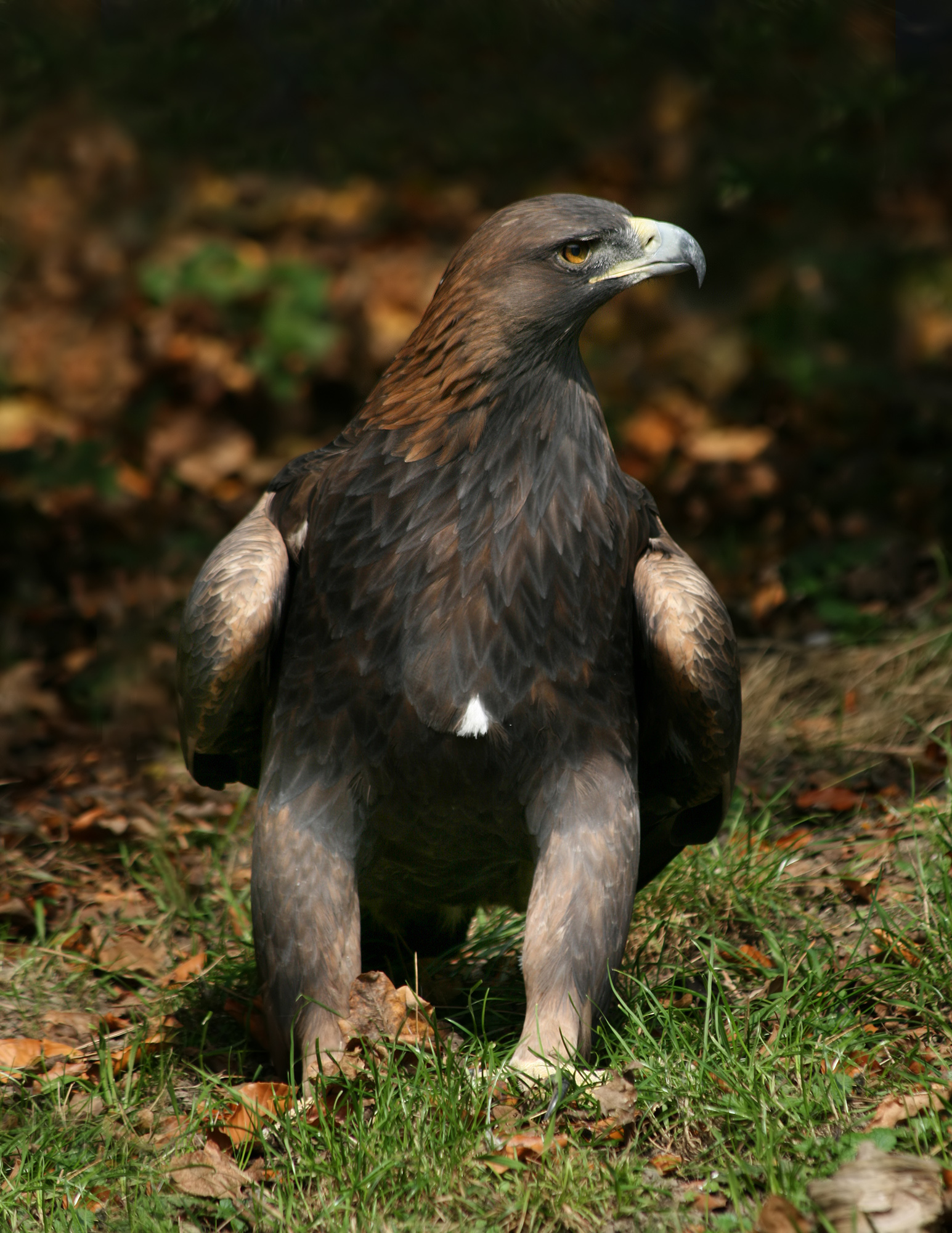 Description: The Golden Eagle Aquila chrysaetos is one of the best known birds of prey in the Northern Hemisphere. Like all eagles, it belongs to the family Accipitridae